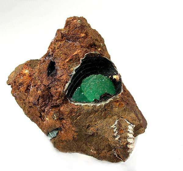 Anapaite Locality: Kerch peninsula (Kertch peninsula), Crimea peninsula, Crimea Oblast', Ukraine (Locality at ) Originating in the cast of a mollusk, is this lovely, translucent, green spherical cluster of the rare phosphate anapaite. It is extremely uncommon and found at its best in teh fossil shells from this deposit, now mined through and gone. The calcium and phosphate needed to form this species are both derived from the original shell material. This area on the Crimean Peninsula is well known for these unusual specimens but again, the zone is through and pieces of this quality are becoming hard to obtain. The main cluster here is about 1.3 cm, making it of respectable size 5 x 3.7 x 3 cm